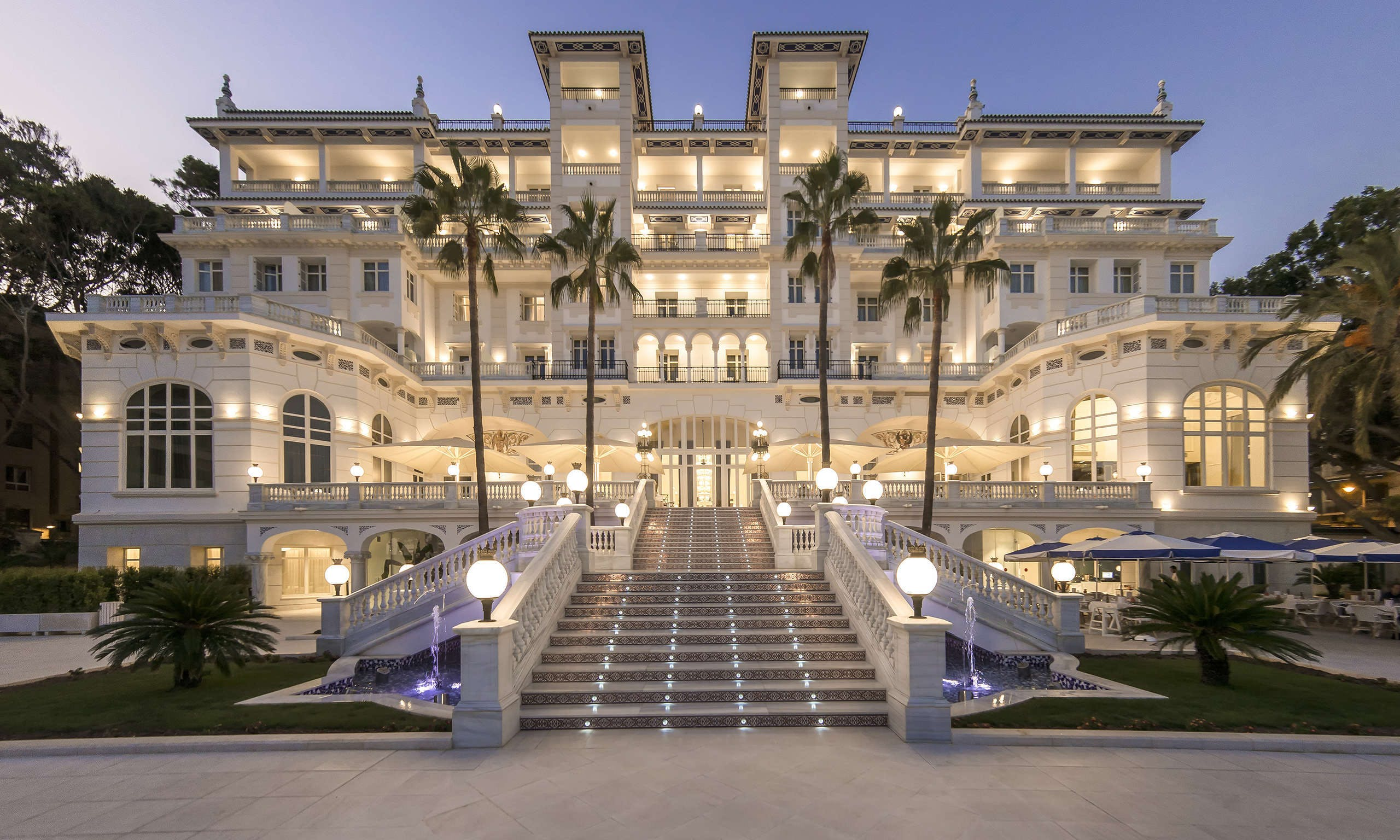 South facade of the Gran Hotel Miramar